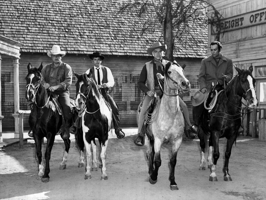 Photo of the main cast of Bonanza. From left-Dan Blocker (Hoss), Michael Landon (Little Joe), Lorne Greene (Ben), Pernell Roberts (Adam).